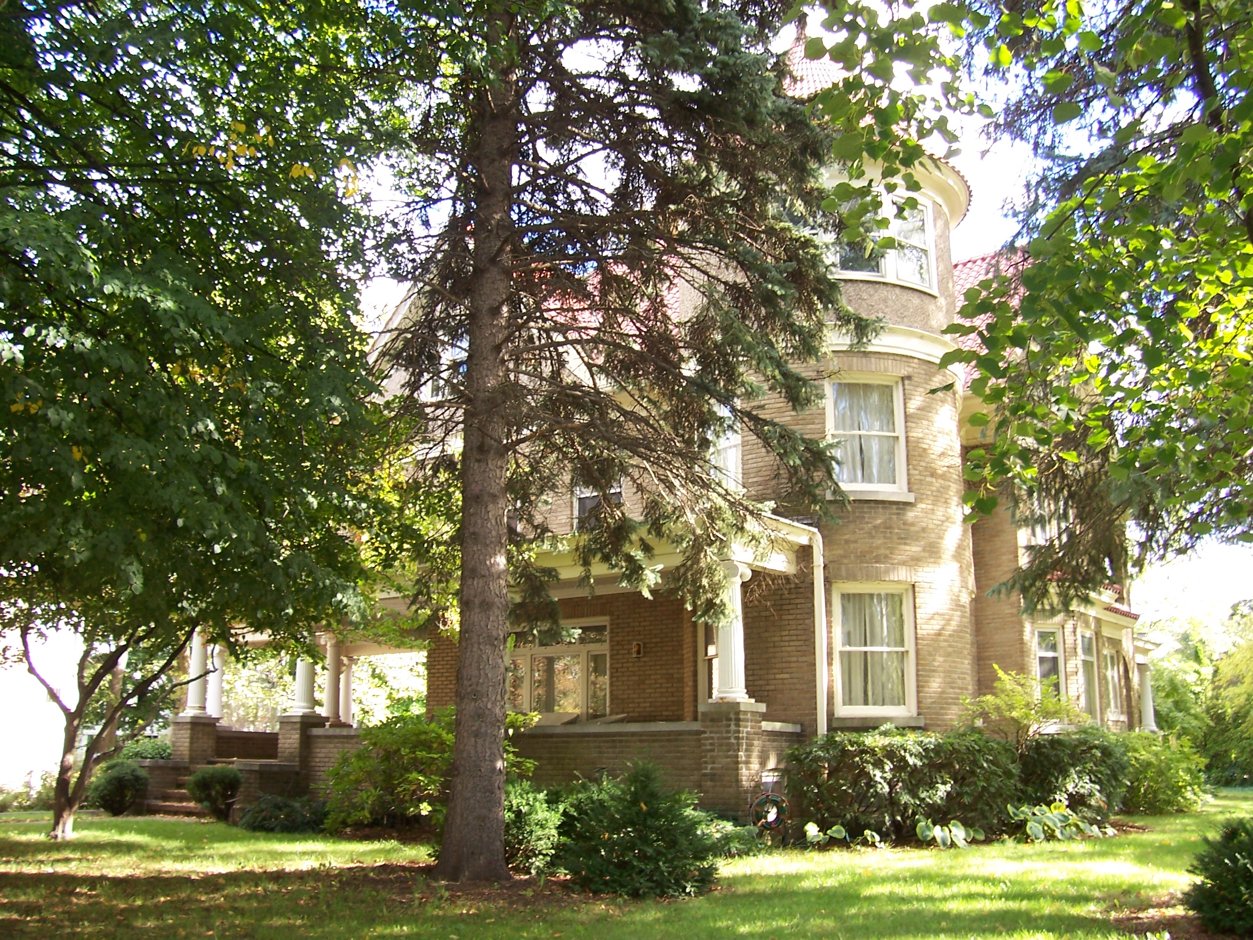 William C. Jayne House in Webster (village), New York